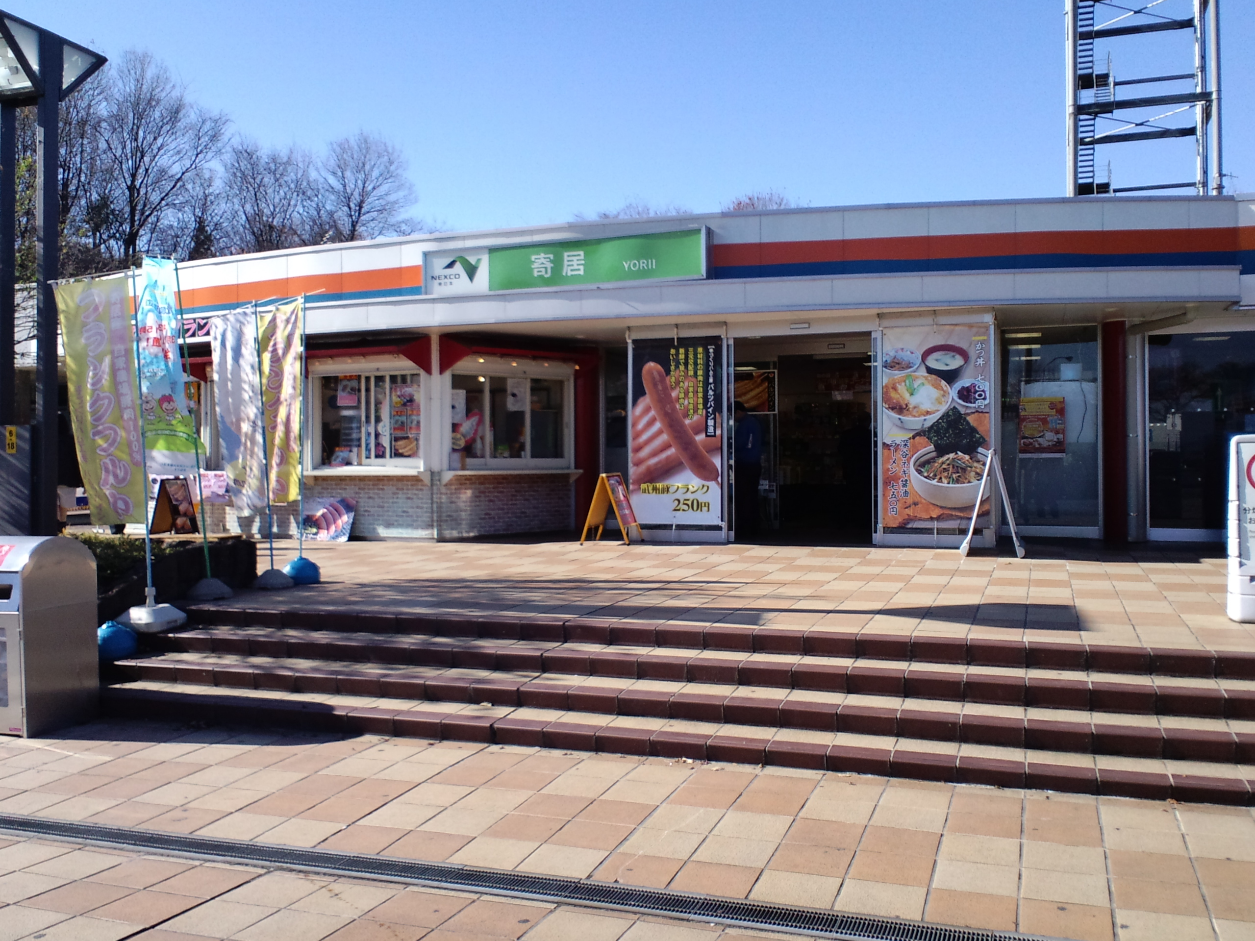 Yorii Parking Area on the Kan-etsu Expressway northbound line in Yorii Town, Saitama Prefecture, Japan